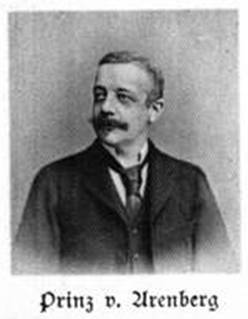 Portrait of Franz von Assisi Ludwig Prinz von Arenberg (1849-1907), member/Mitglied of the German Reichstag